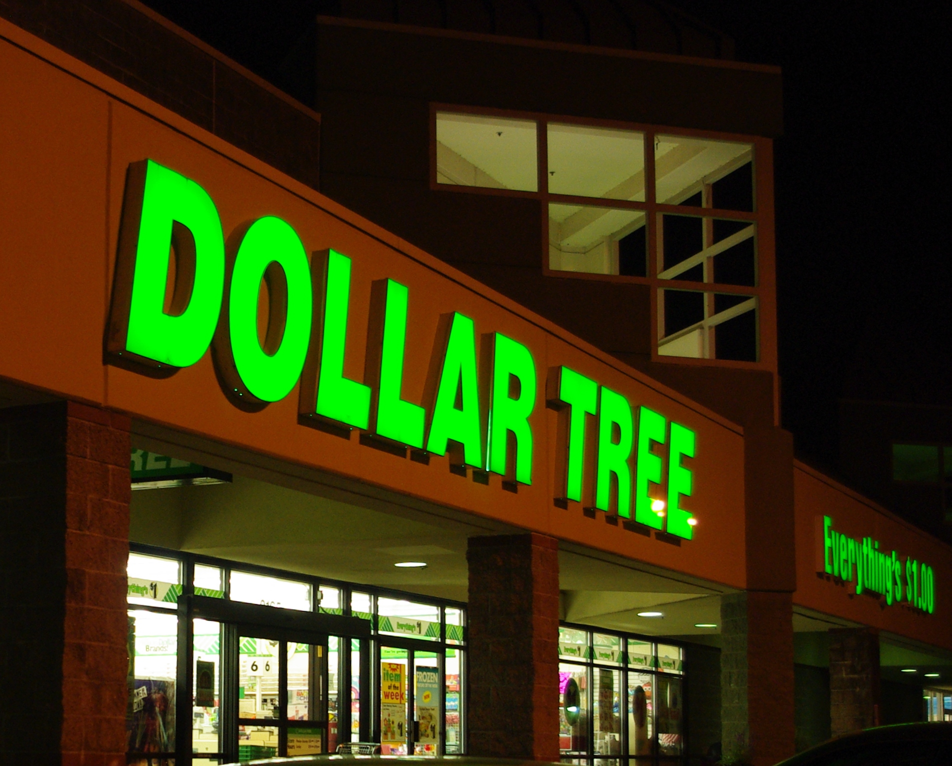 Dollar Tree at the Sunset Esplanade in Hillsboro, Oregon.